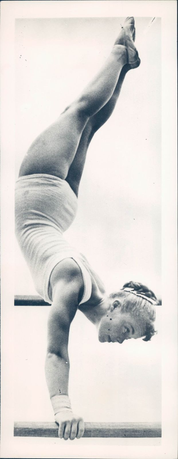 1956 Photo Ernestine Russell Windsor Ontario Gymnastics Championship Sports